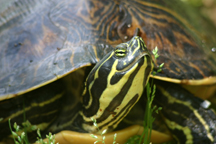 Close-up photo of a Florida Peninsula Cooter, Pseudemys floridana peninsularis. Author is Arpat Ozgul, own work, photo taken in 2004 in Floria.